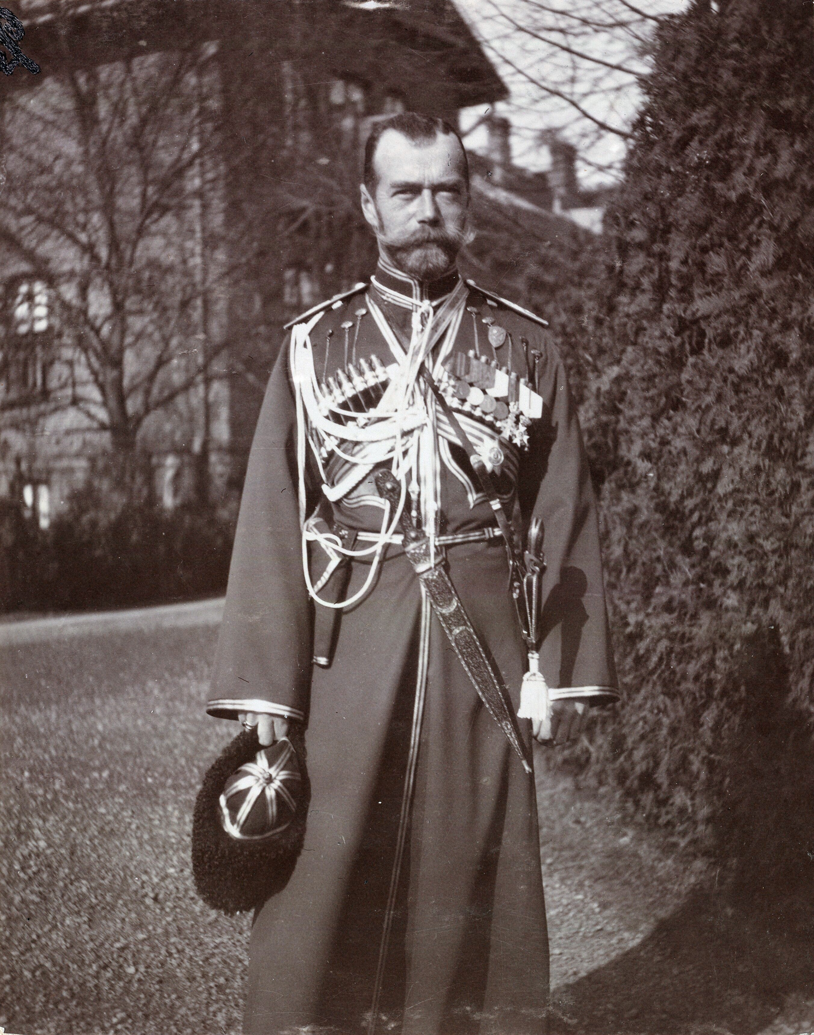 Nicholas II in Spala (Spała) - 1912